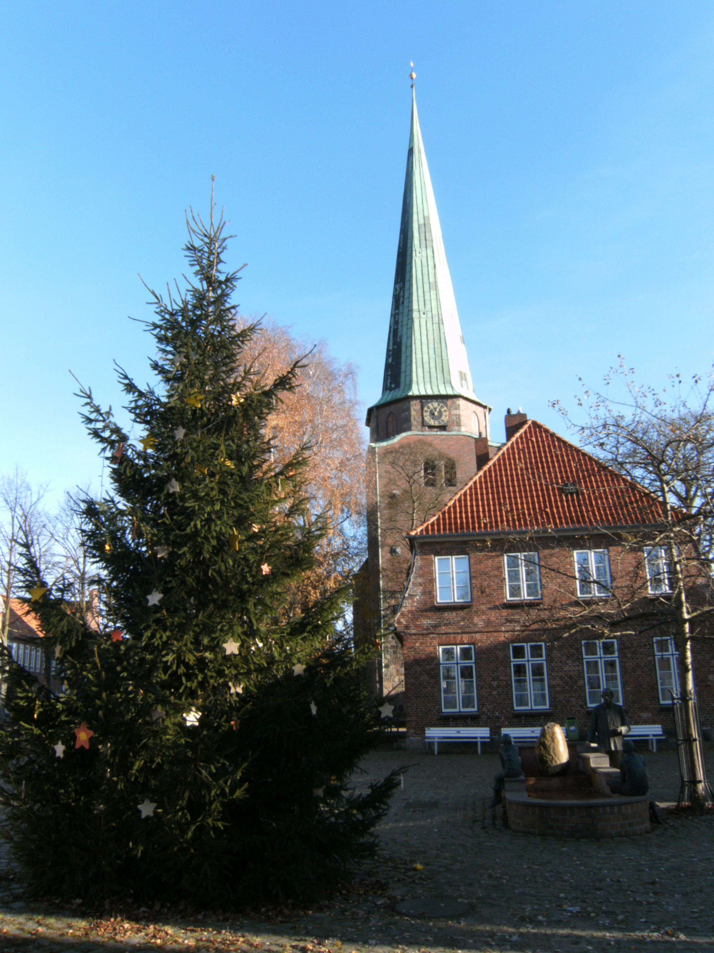 Lübeck-Travemünde, Germany: Christmas tree in front of St. Lorenzkirche (church).